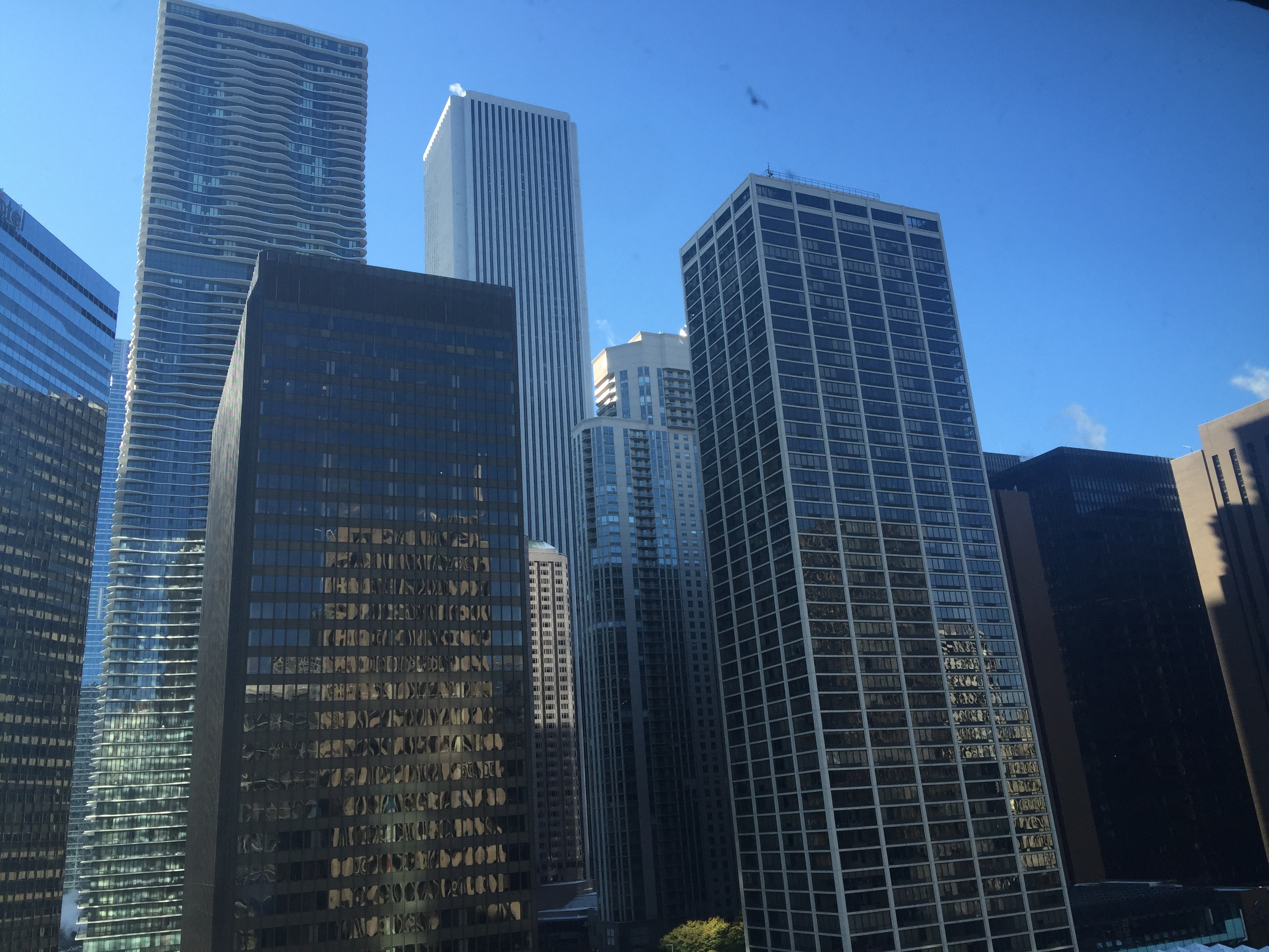 Skyscrapers in Chicago, including the AON Center, Chicago, IL 11-22-15